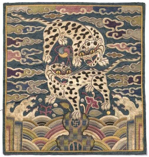 Rank badge, 1850-1900 V&A Museum no. FE.272-1995 Place - Korea Technique - silk Dimensions - Height 21.5 cm, Width 20.7 cm Source